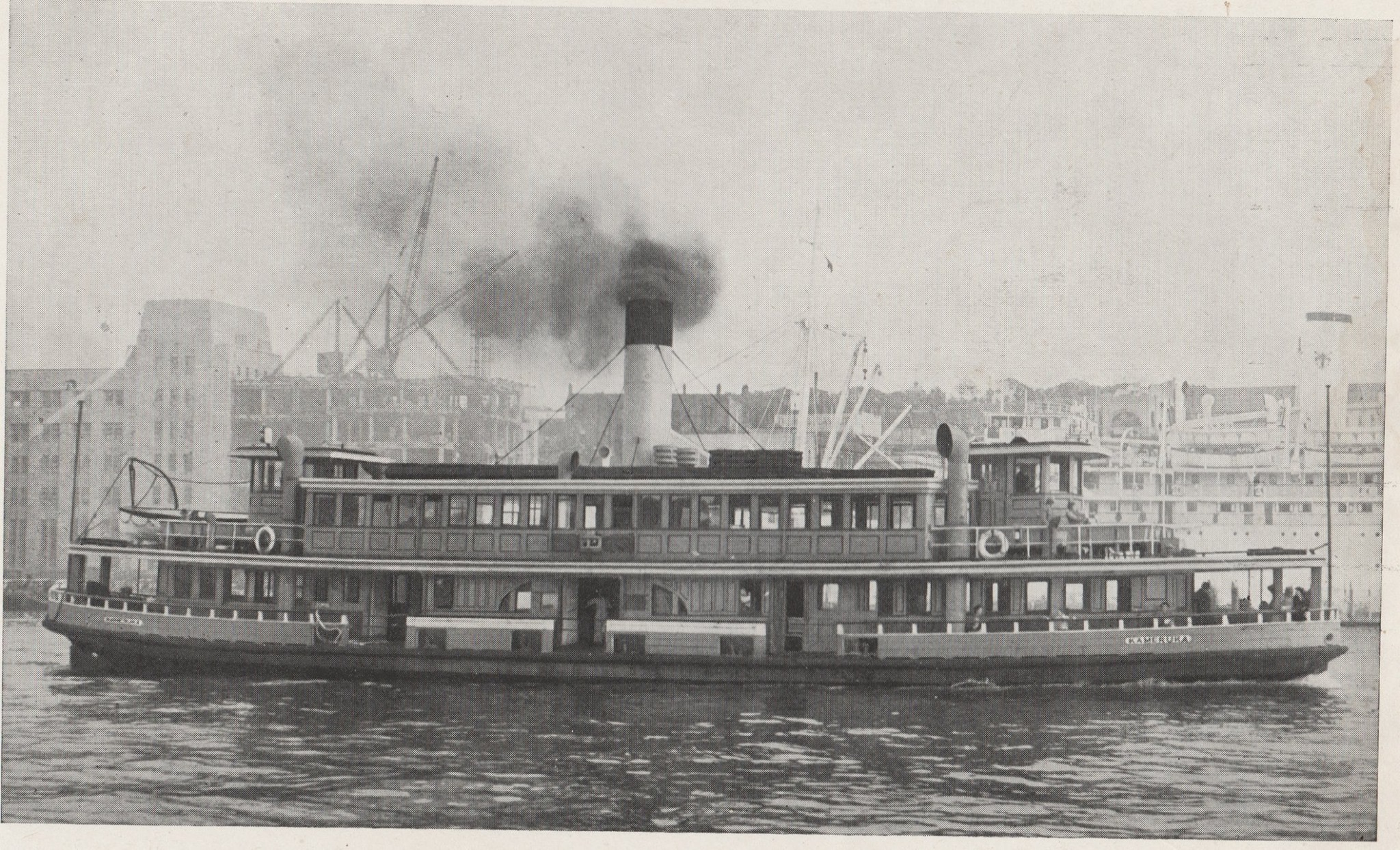 Sydney ferry KAMERUKA as a steamer late 1940s or early 1950s with former MSB building (now MCA) under construction 1940s. Prior to the ferry's 1954 rebuild and conversion to diesel propulsion.